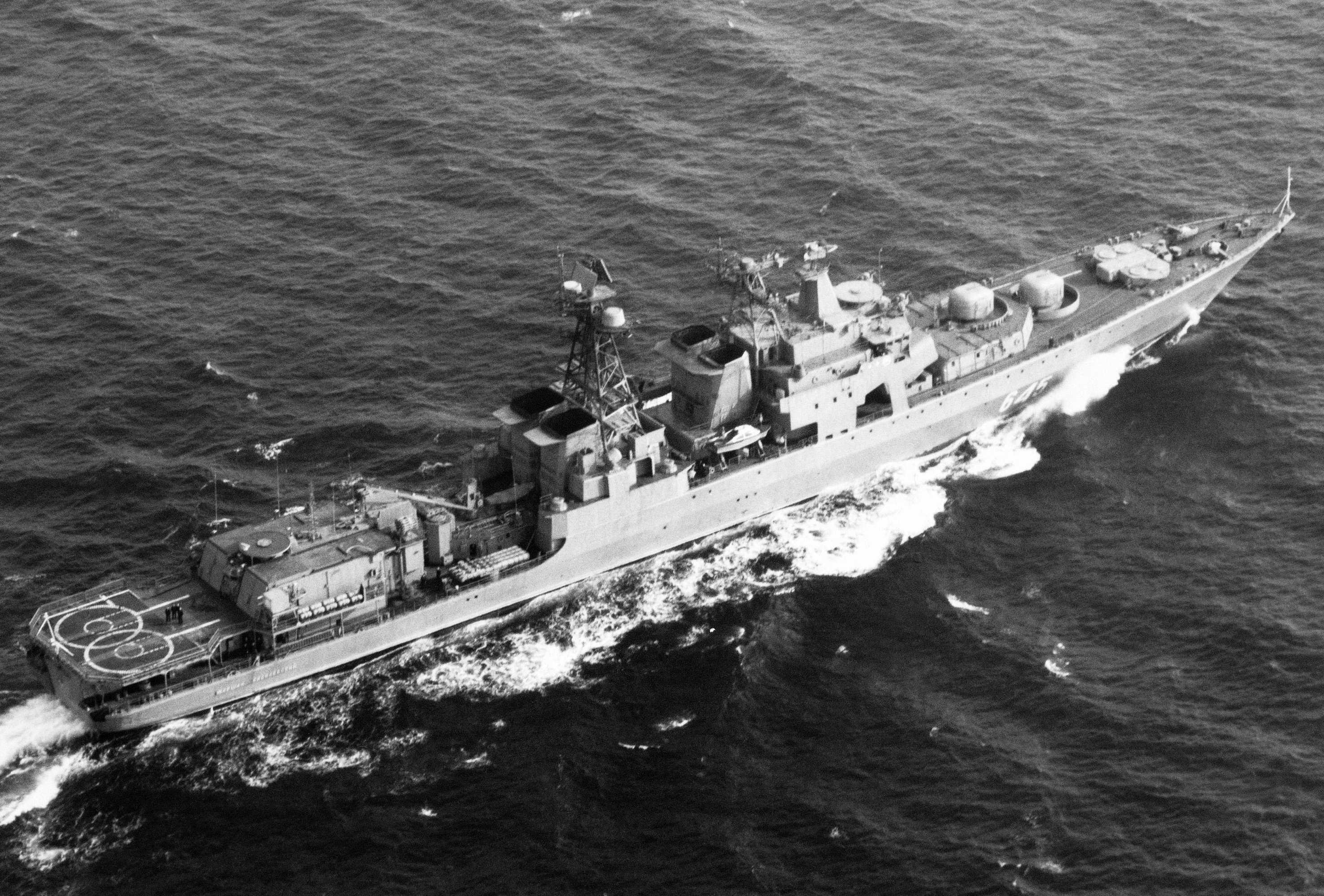 A starboard quarter view of the Soviet Udaloy class guided missile destroyer MARSHAL VASILEVSKY underway.